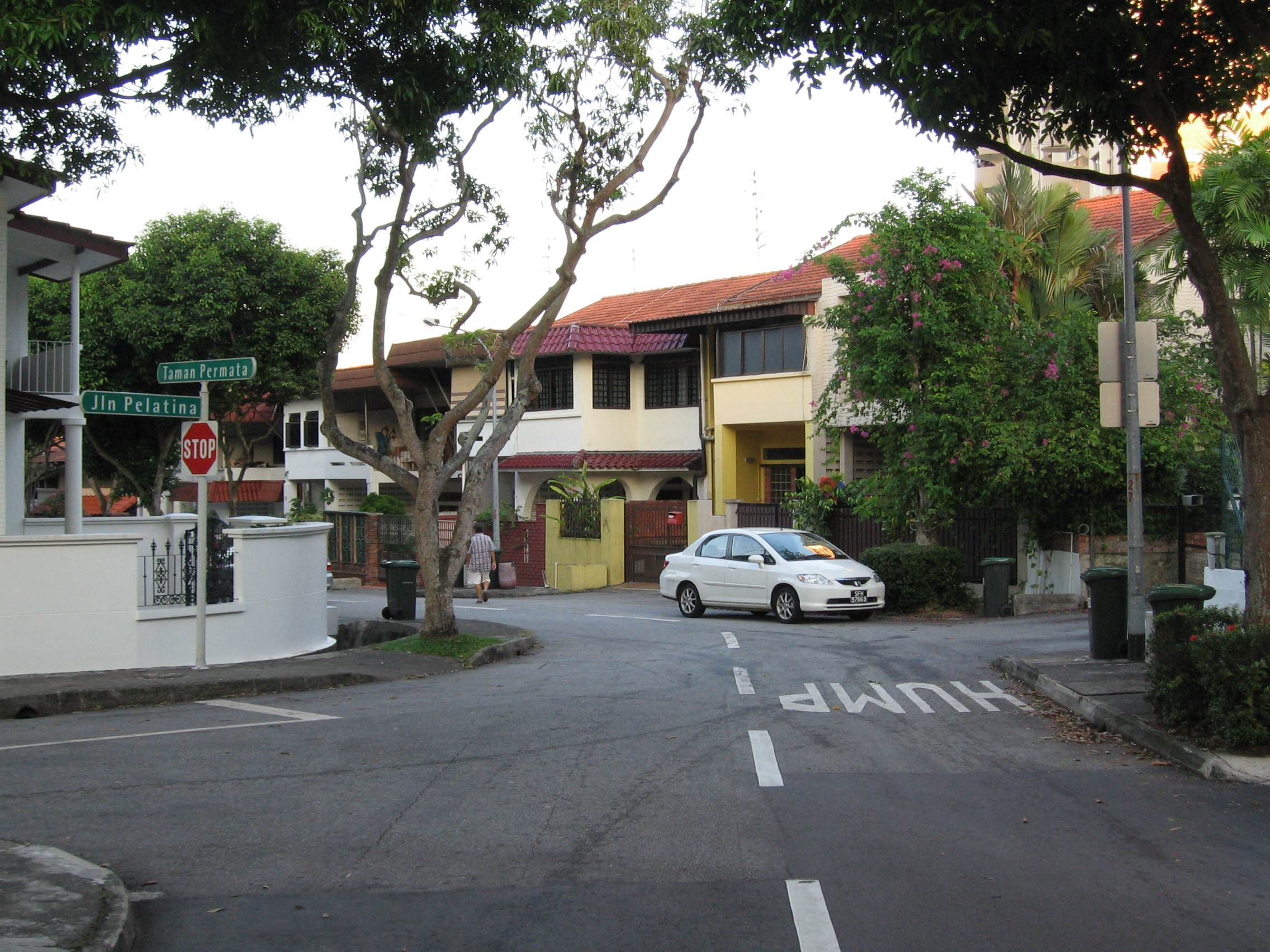 Self taken photograph. Yew Lian Park (Chinese: 友联园; pinyin: Yǒuliányuán) is a private residential estate situated along Upper Thomson Road in Bishan, Singapore. The estate comprises semi-detached houses and terraced houses with two bungalows.